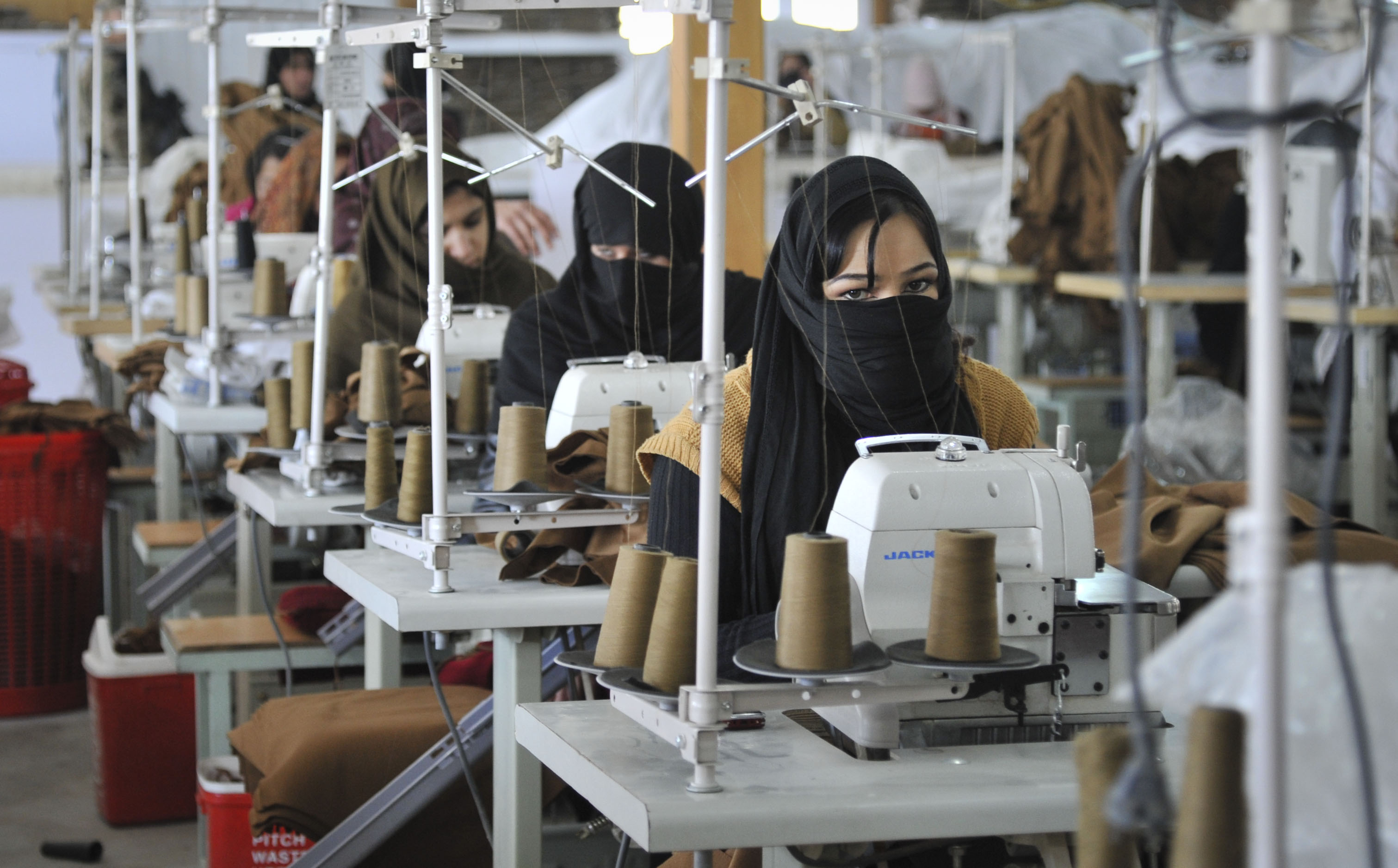 A female Afghan employee sews blankets at a textile factory, Jan. 17. NATO Training Mission -Afghanistan leadership visited two Afghan women-owned textile businesses that manufacture items for the Afghan National Security Force. NTM-A members had the opportunity to directly see the manufacturing capabilities within Kabul and how NTM-A is employing the women of Afghanistan by engaging them into the work force.